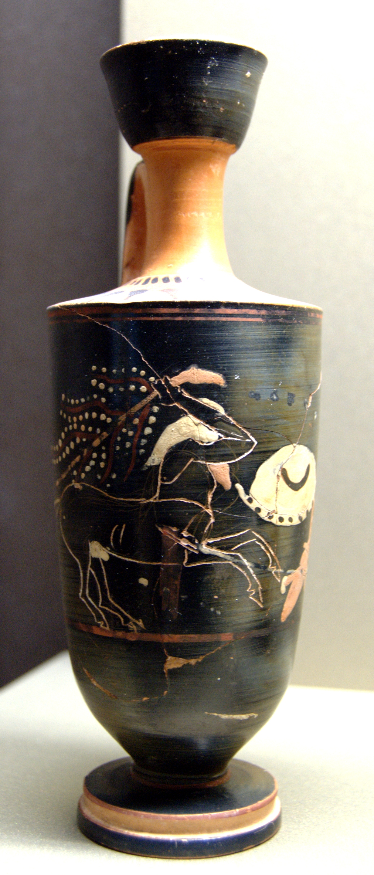 Centaur with an uprooted tree fighting with Ceneus. Atticlekythos with decoration in superposed colours, ca. 500–490 BC.